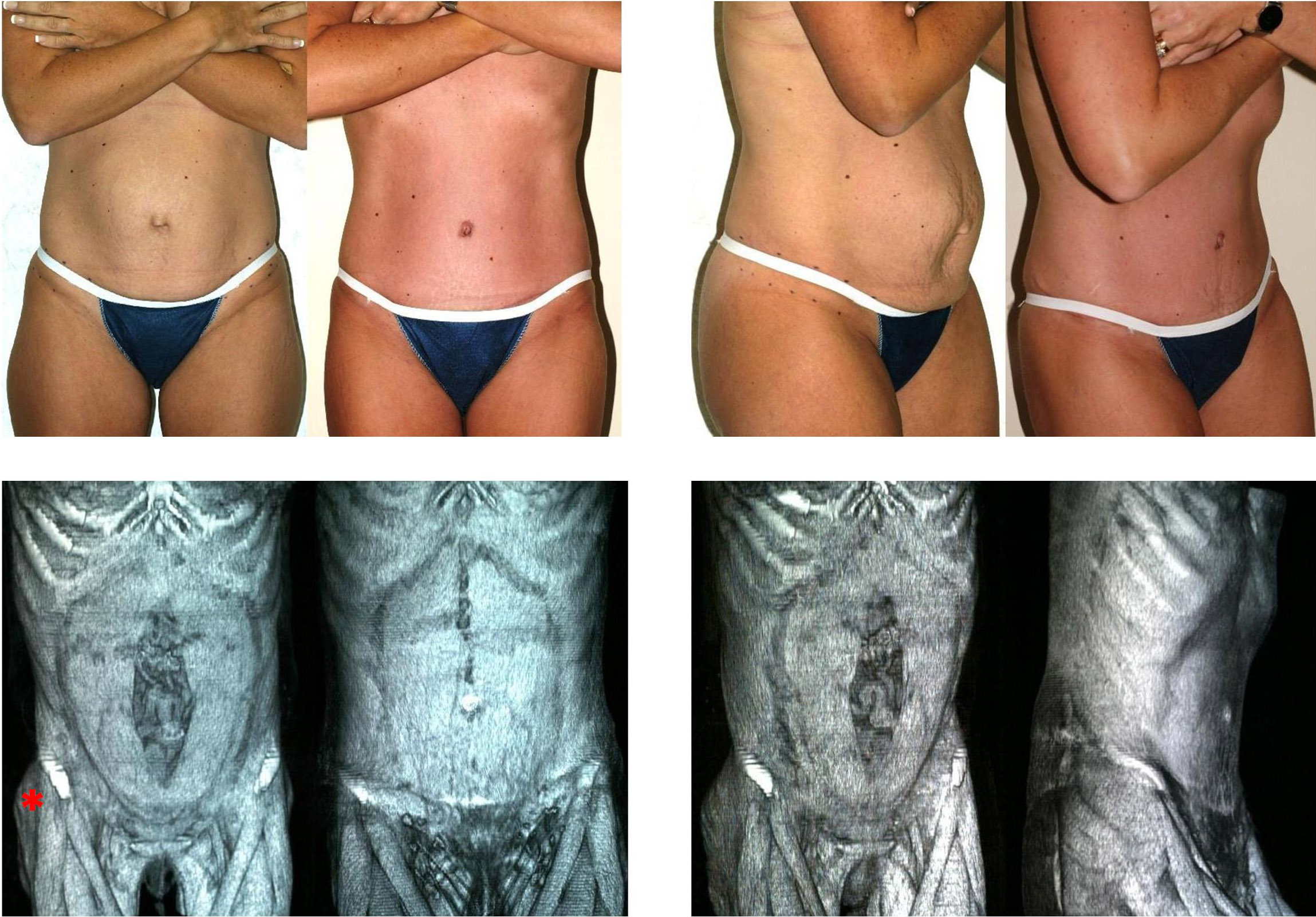 Dr. Otto J. Placik Board Certified Surgeon Chicago,IL. Full Abdominoplasty For use of this image, please refence- WIkipedia Terms of Use